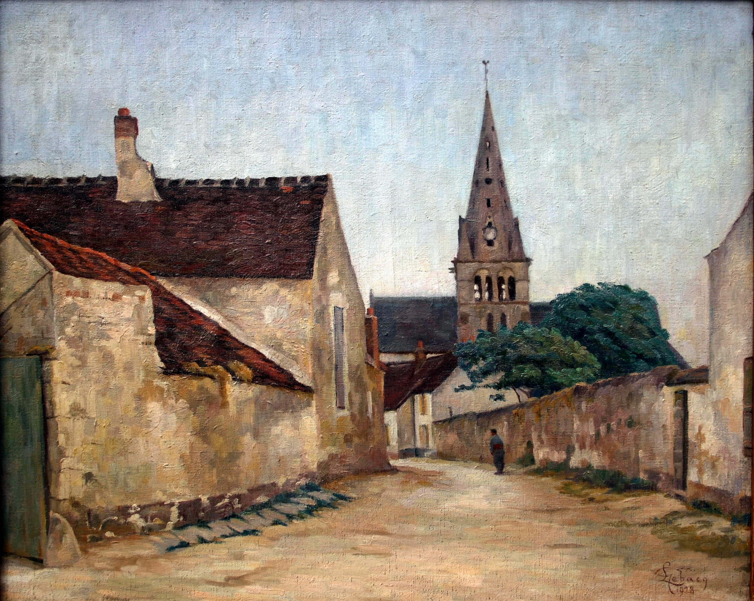 Evening at Chamant (France) by Georges Emile Lebacq.